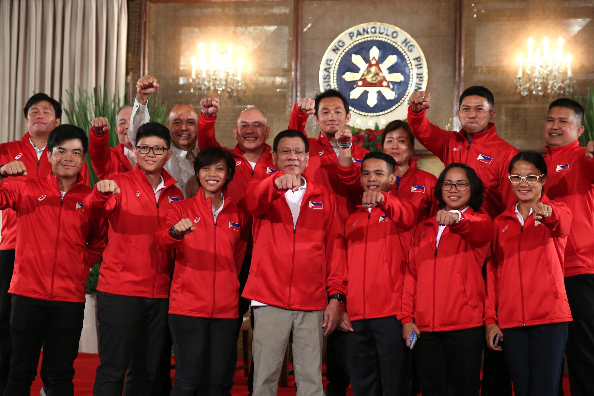 President Rodrigo Duterte with the Philippine delegation to the 2016 Summer Olympics. The official description is as follows: “ President Rodrigo R. Duterte as well as athletes and coaches who will represent the country in Rio Olympics do the fist gesture as they pose during the Send-off Ceremony for the Philippines' delegation to the Rio Olympics 2016 at the Rizal Hall of the Malacañan Palace on Monday, July 18, 2016. KING RODRIGUEZ/PPD ”